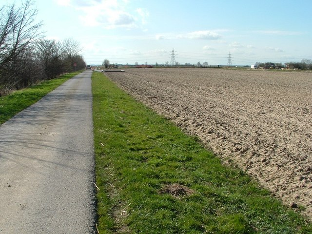 Cowbridge from Longhedge Drove Land lying fallow close to Cow Bridge, Bicker Gauntlet